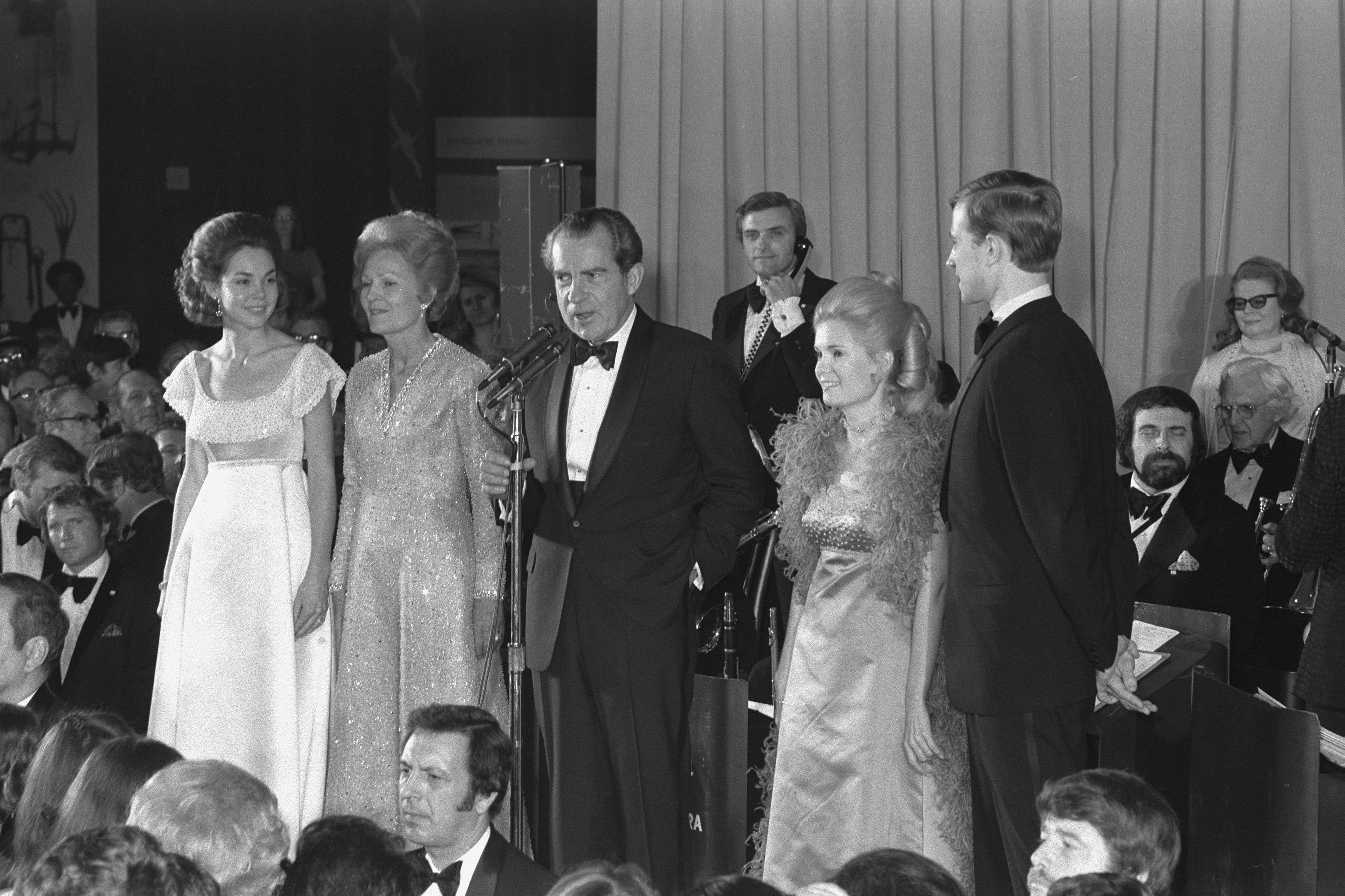 Description: President Nixon with his wife Patricia and daughters Julie and Tricia speaking at his Inaugural Ball in the Museum of History and Technology, now the National Museum of American History, January 20, 1973. Creator/Photographer: Richard K. Hofmeister Medium: Black and white photographic print Dimensions: 8 in x 10 in Date: 1973 Persistent URL: [1] Repository: Smithsonian Institution Archives Accession number: 73-519-15A